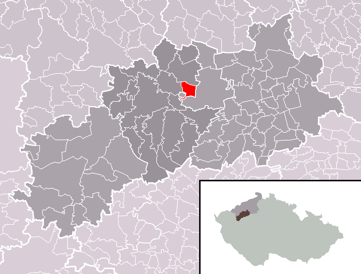 Location of Lišany municipality within Louny District and administrative area of Žatec as a Municipality with Extended Competence.